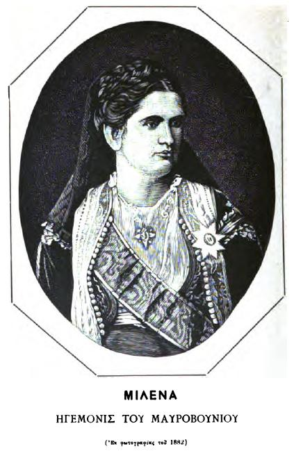 Poikilē stoa: ethnikē eikonographēnenē epetēris ... Etos 1-16, 1881-1914 (1882) Author: Ioannes A. Arsenēs , Michael A . Raphaelobits Volume: 3-4 Publisher: Estia Year: 1882 Possible copyright status: NOT_IN_COPYRIGHT Language: Greek Digitizing sponsor: Google Book from the collections of: Harvard University Collection: americana